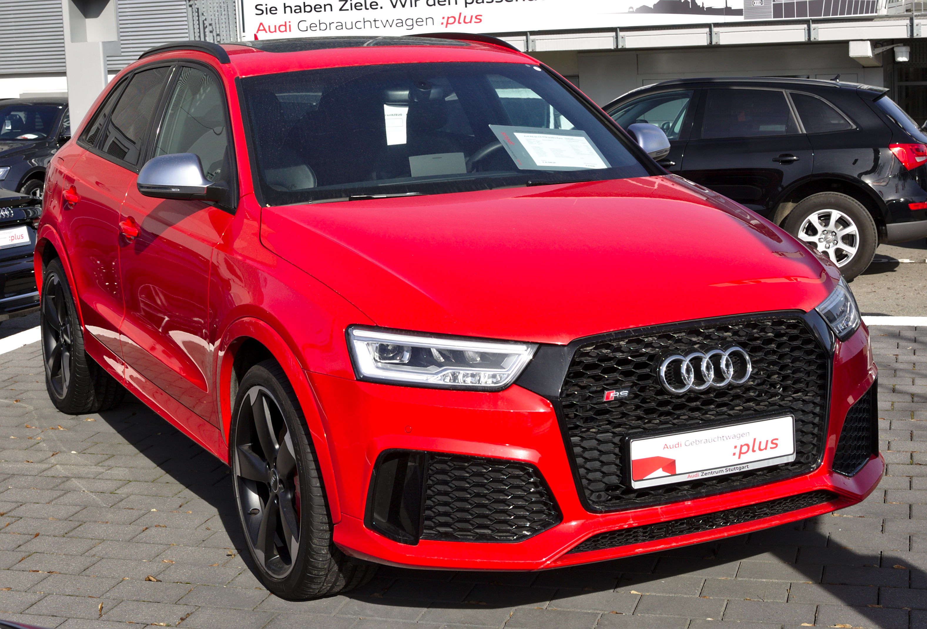 Audi RS Q3 in Stuttgart-Vaihingen